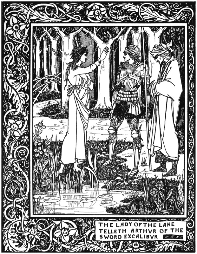 Illustration by Aubrey Beardsley (1872-1898) for Thomas Malory's Le Morte d'Arthur (Book I - Chapter III) published by J. M. Dent in 1893. The engraving reflects the Japanese woodcut called ukiyo-e.